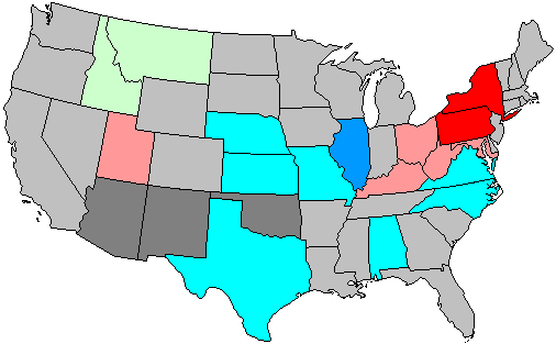 Summary of party change of U.S. house seats in the 1900 House election. Stripes indicate a tie between the gains of two or more parties. Legend: 6+ Democratic seat pickup 3-5 Democratic seat pickup 1-2 Democratic seat pickup 1-2 Republican seat pickup 3-5 Republican seat pickup 6+ Republican seat pickup 1-2 Populist seat pickup 3-5 Populist seat pickup Note: years ending in 2 may have inconsistent results due to redistricting.